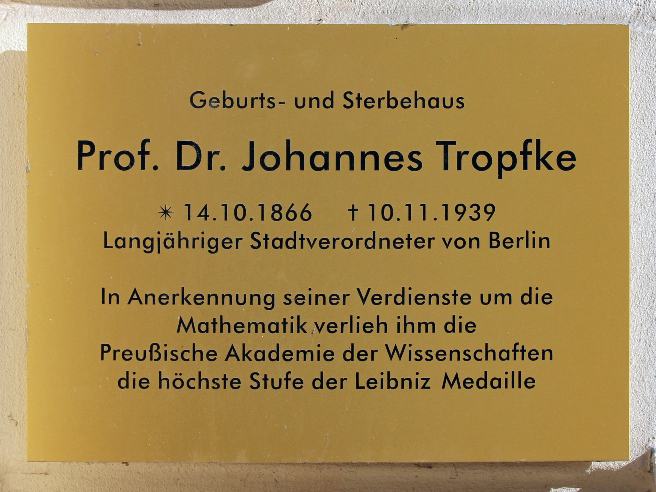 Memorial plaque, Johannes Tropfke, Marienstraße 14, Berlin-Mitte, Deutschland